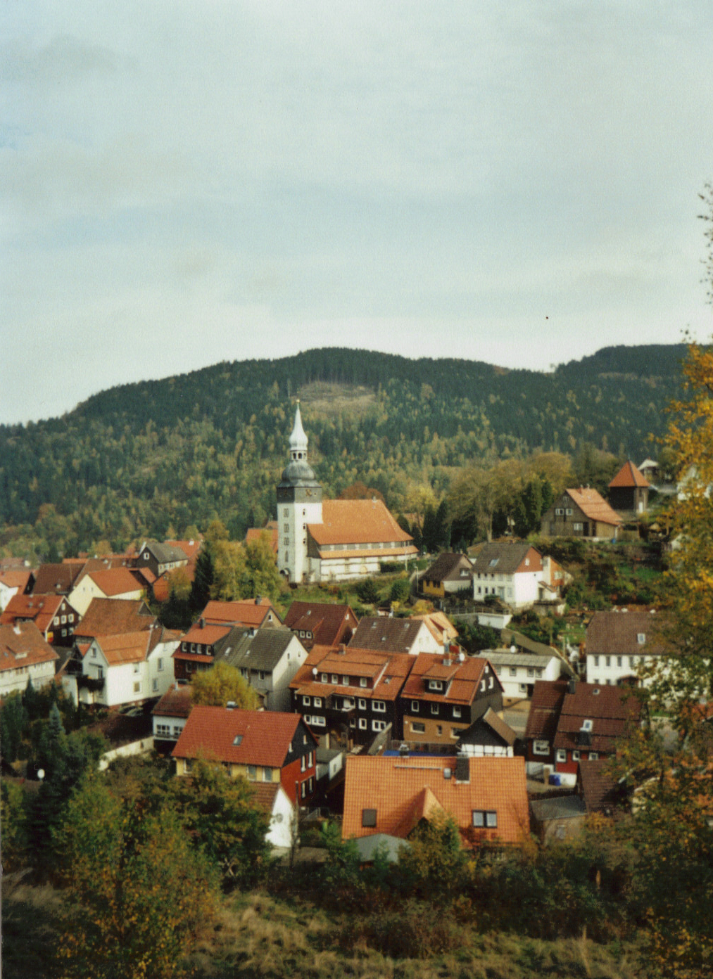 View of the mining town of Lautenthal in the Harz mountains of Germany